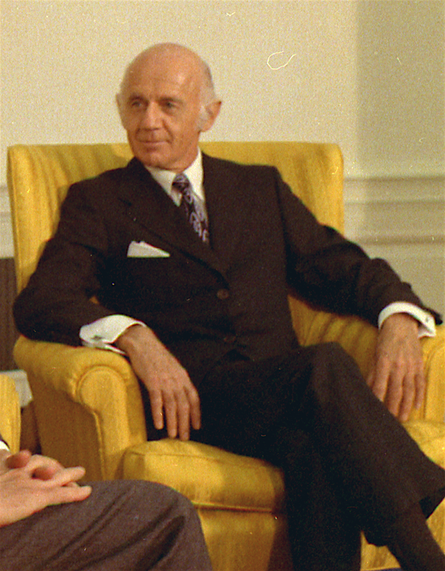 Australian Prime Minister William McMahon during a visit to the US in 1971